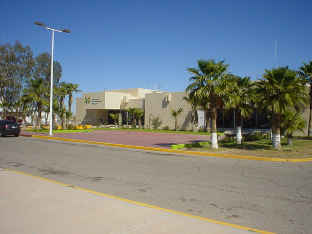 Mexicali International Airport. General Aviation Terminal and Airport Commander's Office (Mexican Federal Civil Aviation Authority - SCT - DGAC)